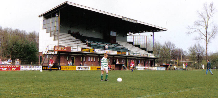 former home ground of zwolsche boys